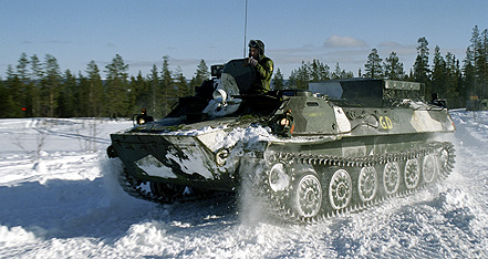 Troop carrier MT-LB in Swedish army service. Winter.